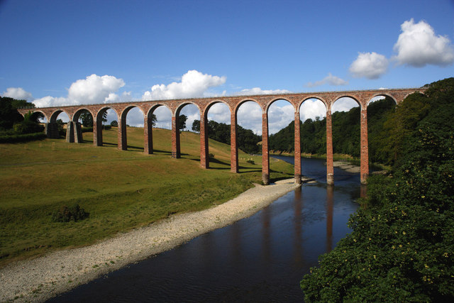 Leaderfoot viaduct Now closed for rail traffic.